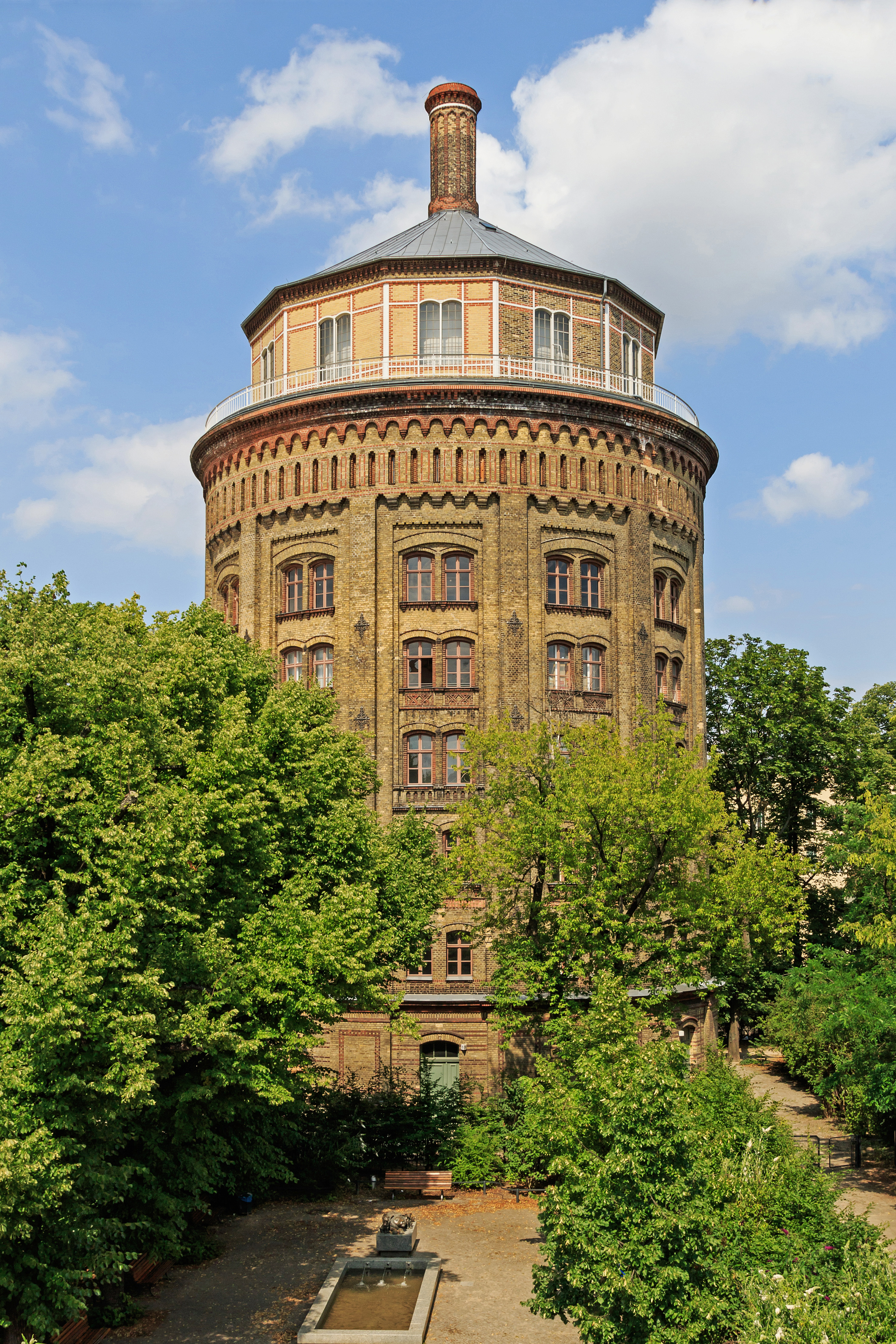 Former water tower in Prenzlauer Berg, Berlin